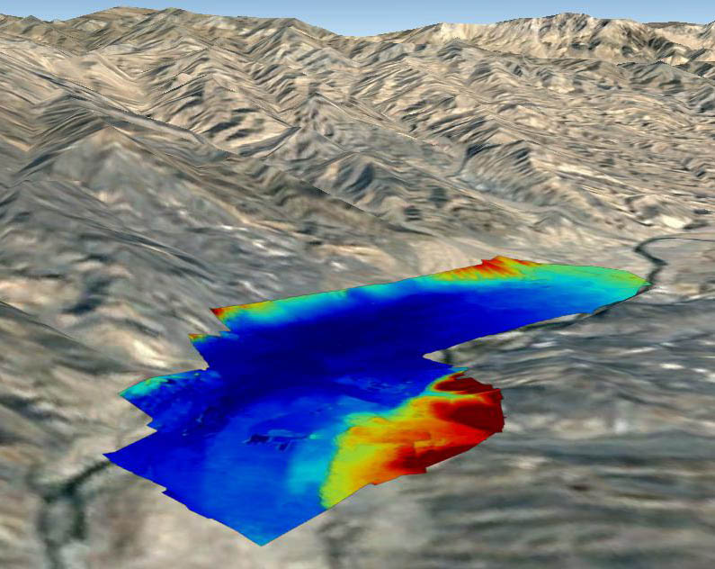 Монгол: Prepared by Numan-Altai LLC